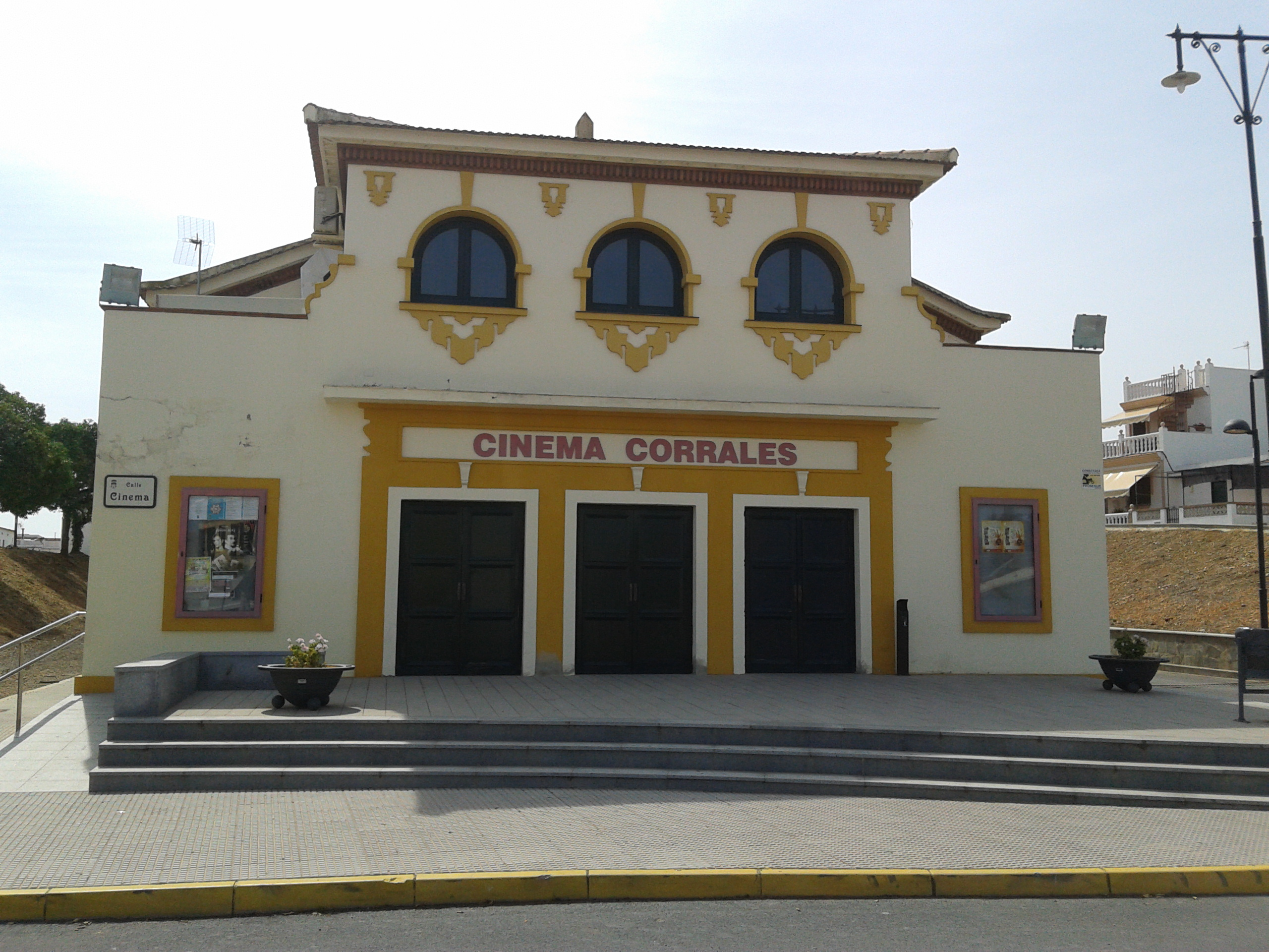 Cinema Corrales on Costa de la Luz